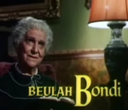 Cropped screenshot of Beulah Bondi from the trailer for the film The Unholy Wife.